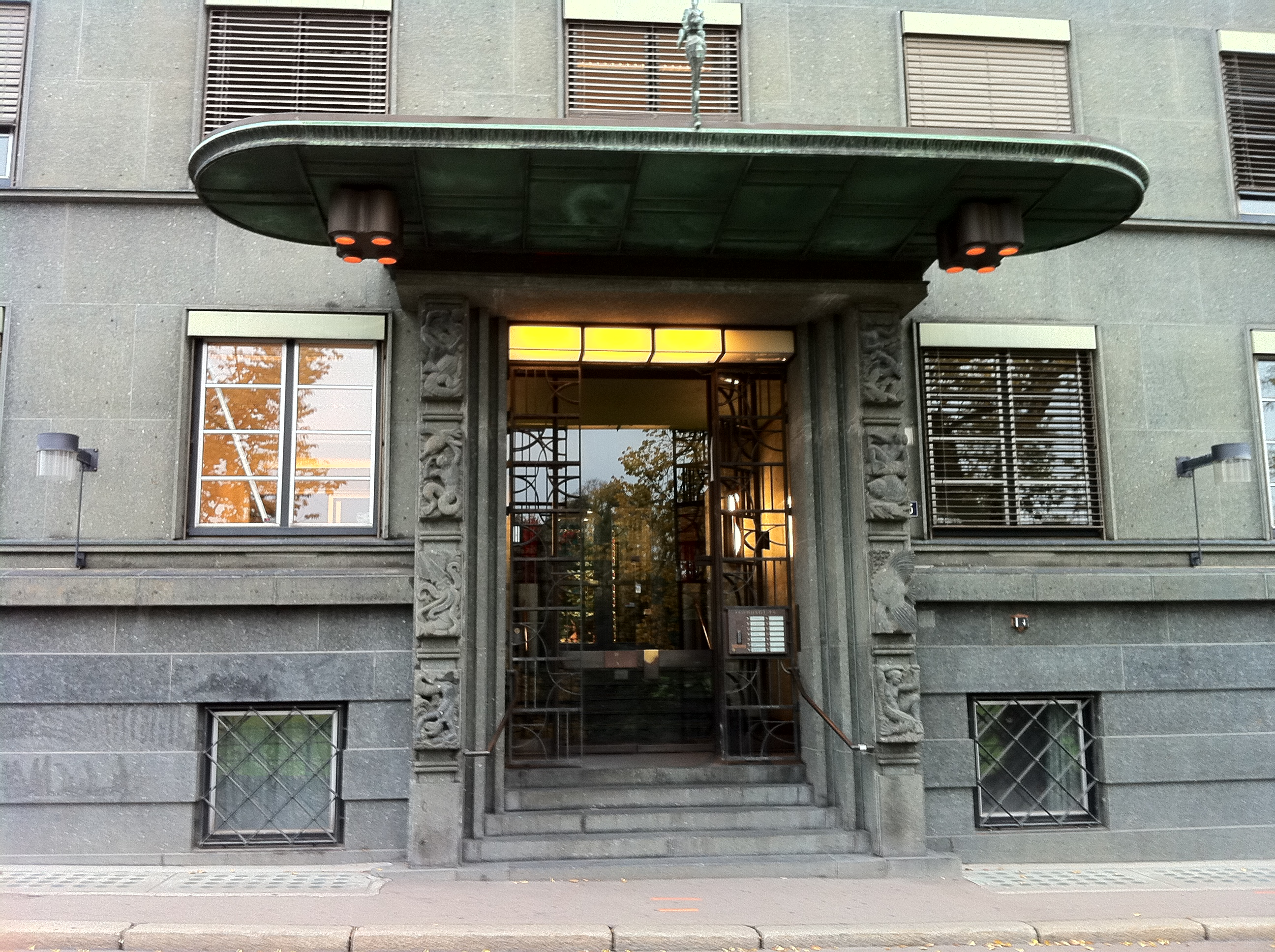 Rådhusgata 25 in Oslo, Norway. Norwegian Shipowners' Associations building, winner of the architectur prize Houens fonds diplom in 1941.